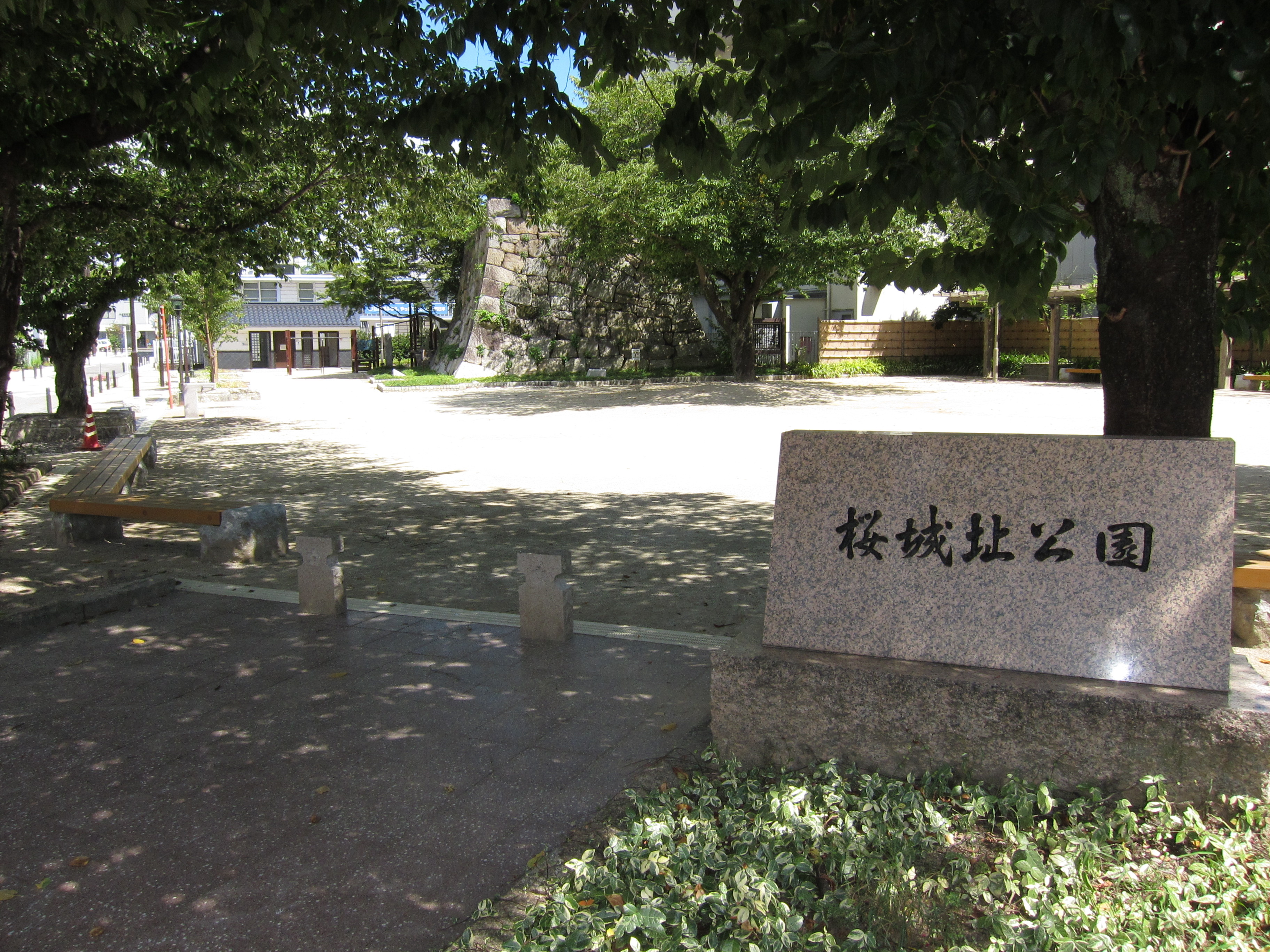 Sakurajoshi Park, Toyota, Aichi, Japan